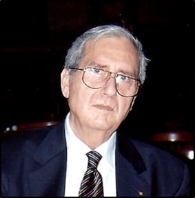 Antonio Talamo